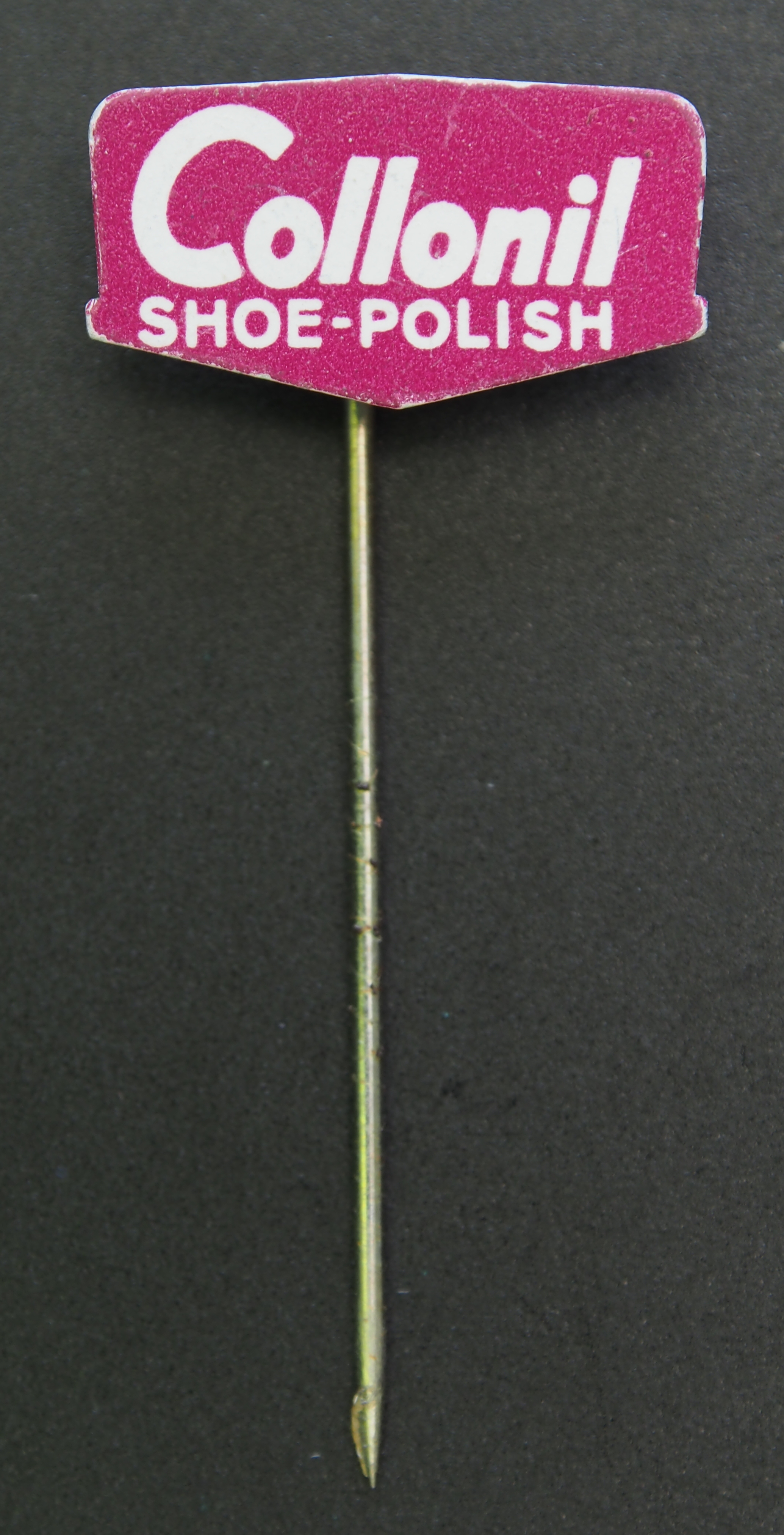 Advertising pin of an old (Dutch) product or brand.